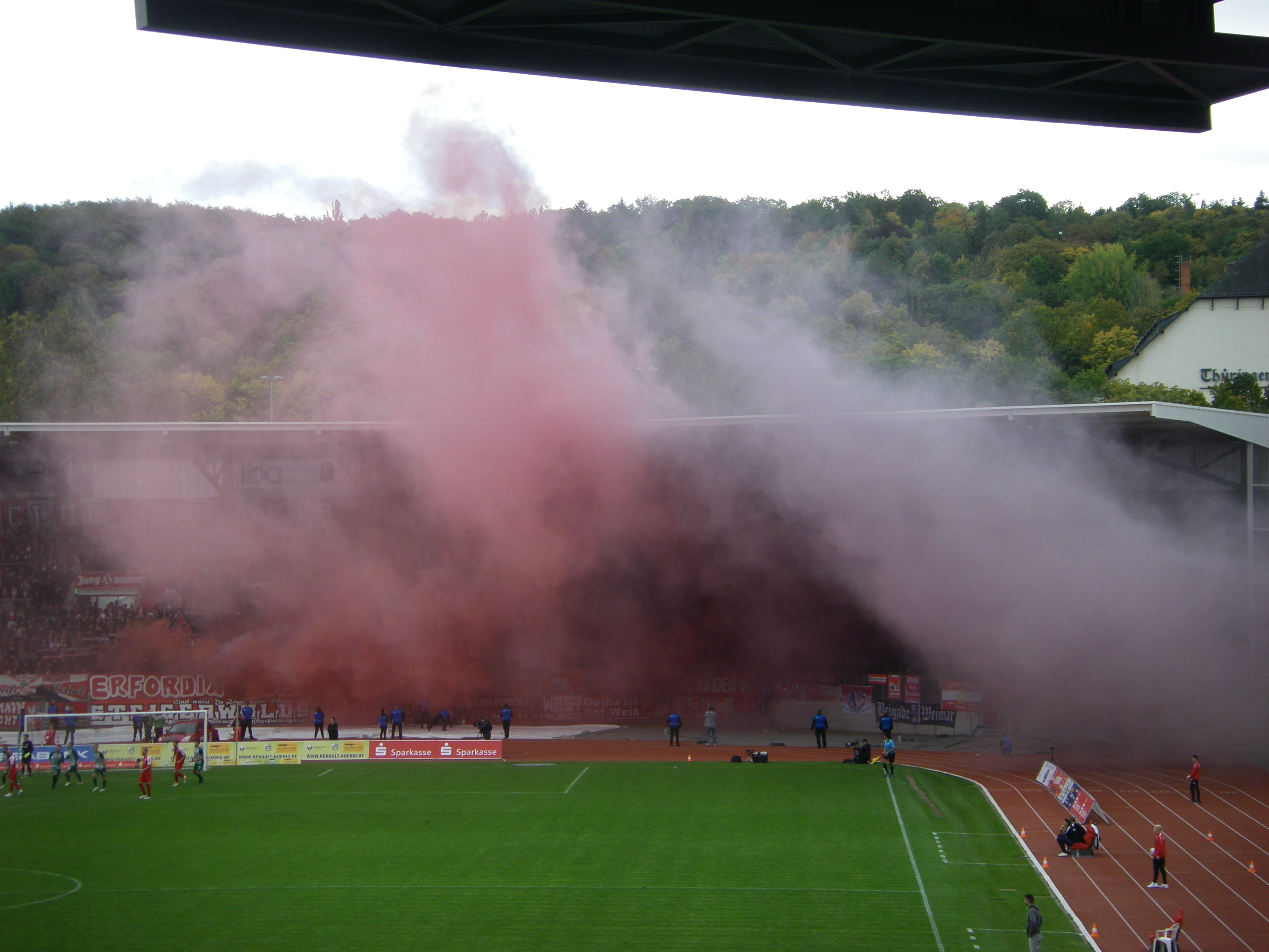 Smoke in Steigerwaldstadion after fans of FC Rot-Weiß Erfurt have burned pyrotechnics in a match against BSG Chemie Leipzig